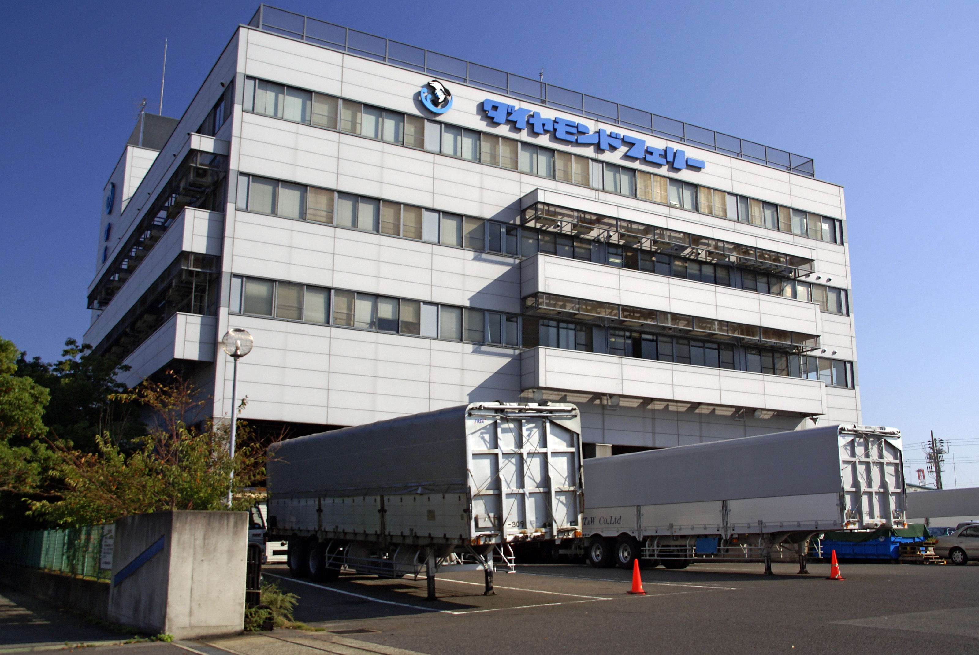 Diamond Ferry Building on Rokko Island in Kobe, Hyogo, Japan )